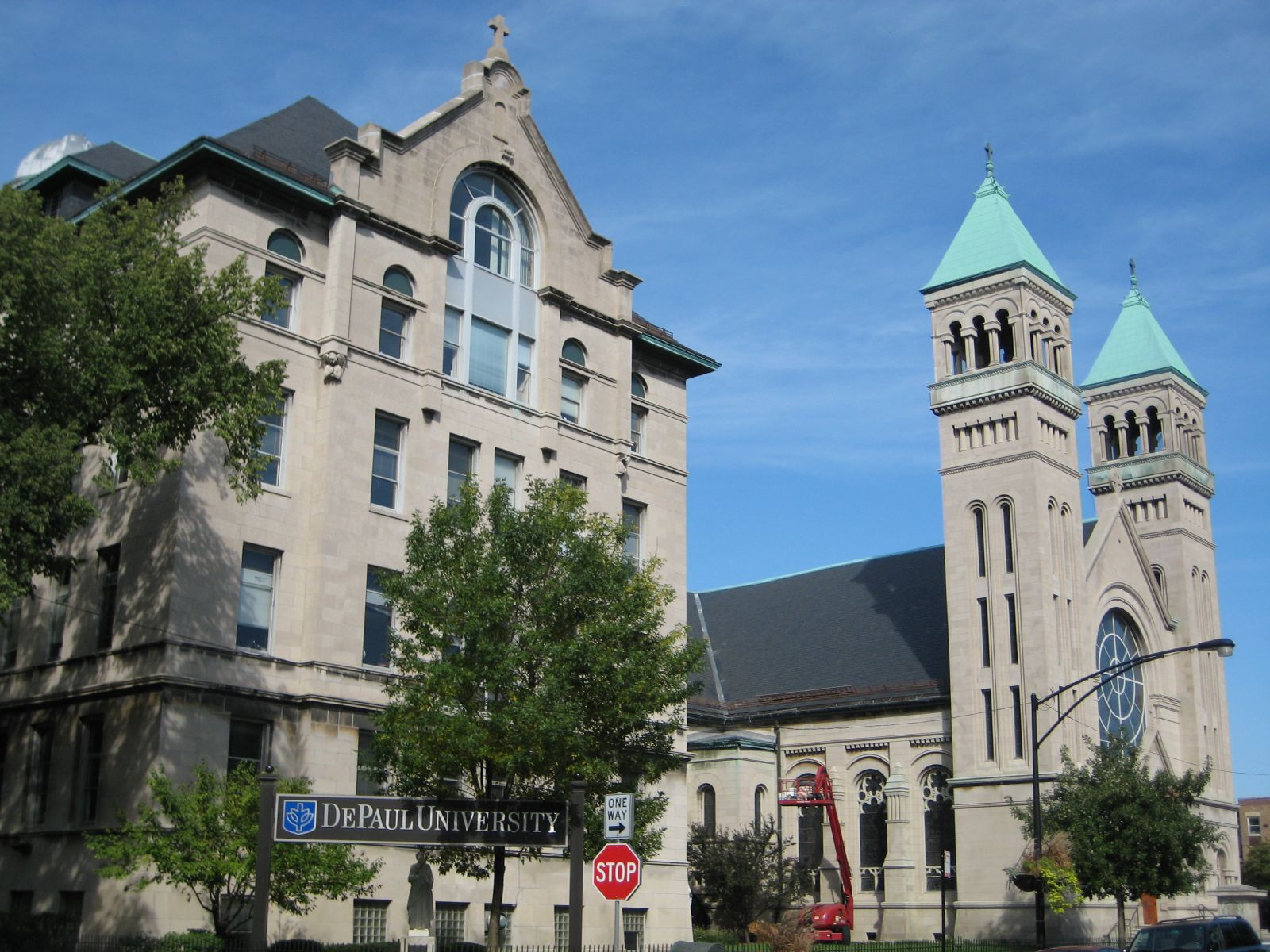 DePaul University